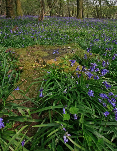 Tree stump surrounded by Spring Bluebells. All the local woods are currently a carpet of blue.